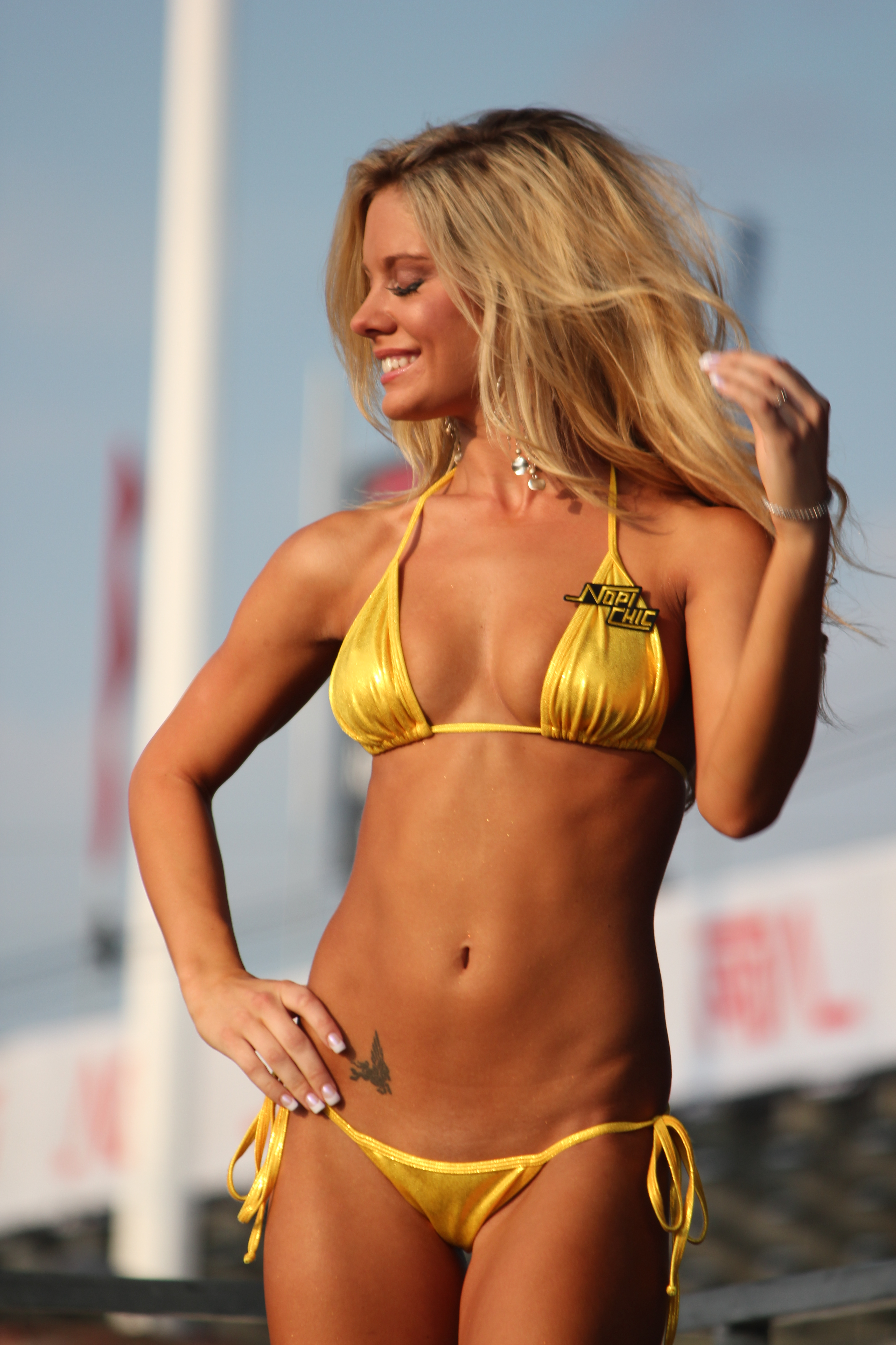 Hot Import Nights . Bikini Contest.